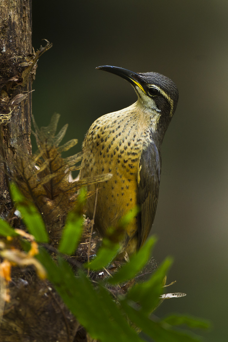 Victoria's Riflebird fem - Lake Eacham - Queensland _S4E7687